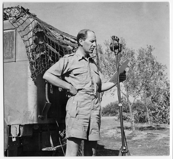 Title / Titre : CBC war correspondent Matthew Halton preparing to broadcast in Sicily, Italy, August 20, 1943 / Le correspondant de guerre de la CBC Matthew Halton se prépare à entrer en ondes en Sicile (Italie), le 20 août 1943 Creator(s) / Créateur(s) : Unknown / Inconnu Date(s) : August 20, 1943 / 20 août 1943 Reference No. / Numéro de référence : AMICUS n/a, MIKAN 3612982 Location / Lieu : Sicily, Italy / Sicile, Italie Credit / Mention de source : Canada. Canadian Broadcasting Company. Library and Archives Canada, e003525273 / Canada. Radio-Canada. Bibliothèque et Archives Canada, e003525273